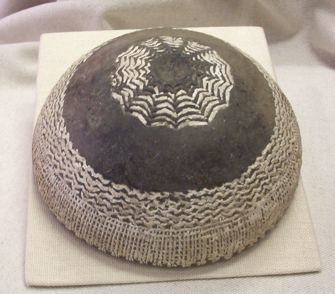 A Prehistoric earthenware bowl, part of a beaker-culture pottery group dated in the early Bronze Age. It was part of a funerary equipment.